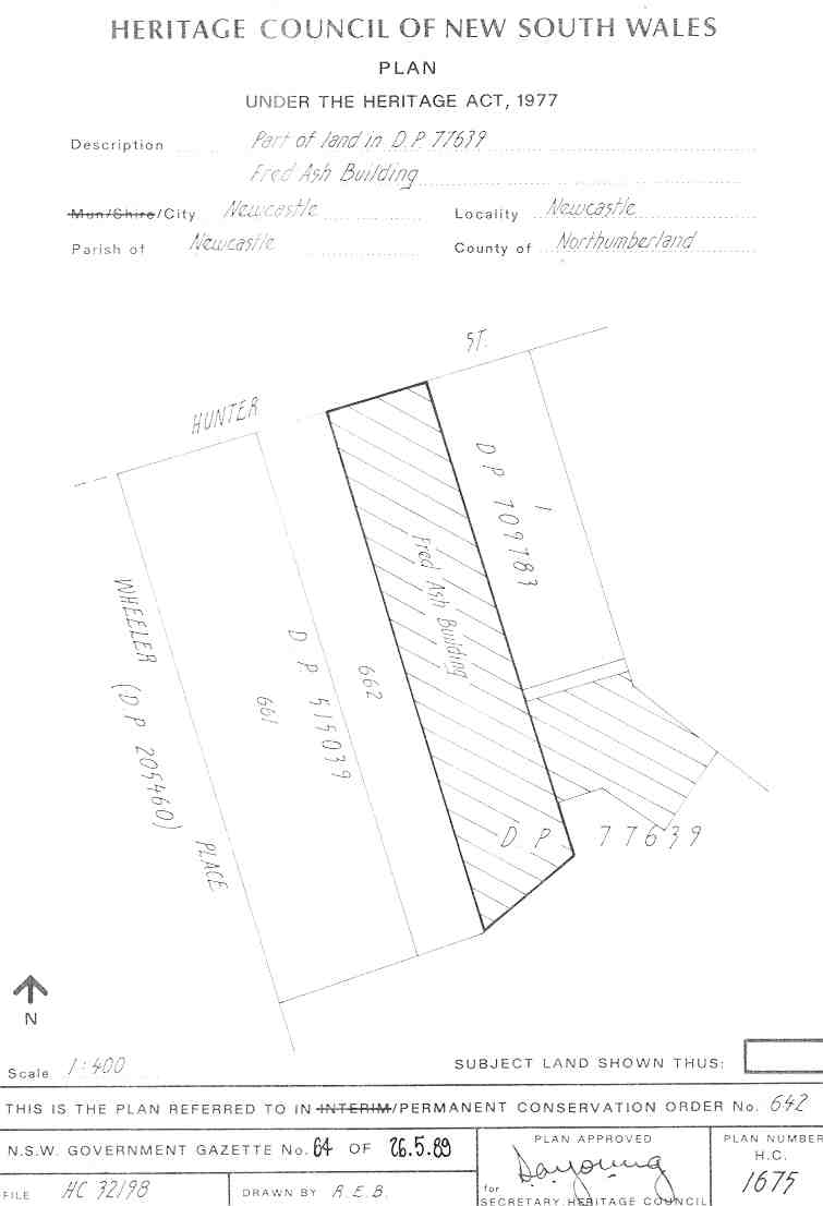 Frederick Ash Building: PCO Plan Number 642